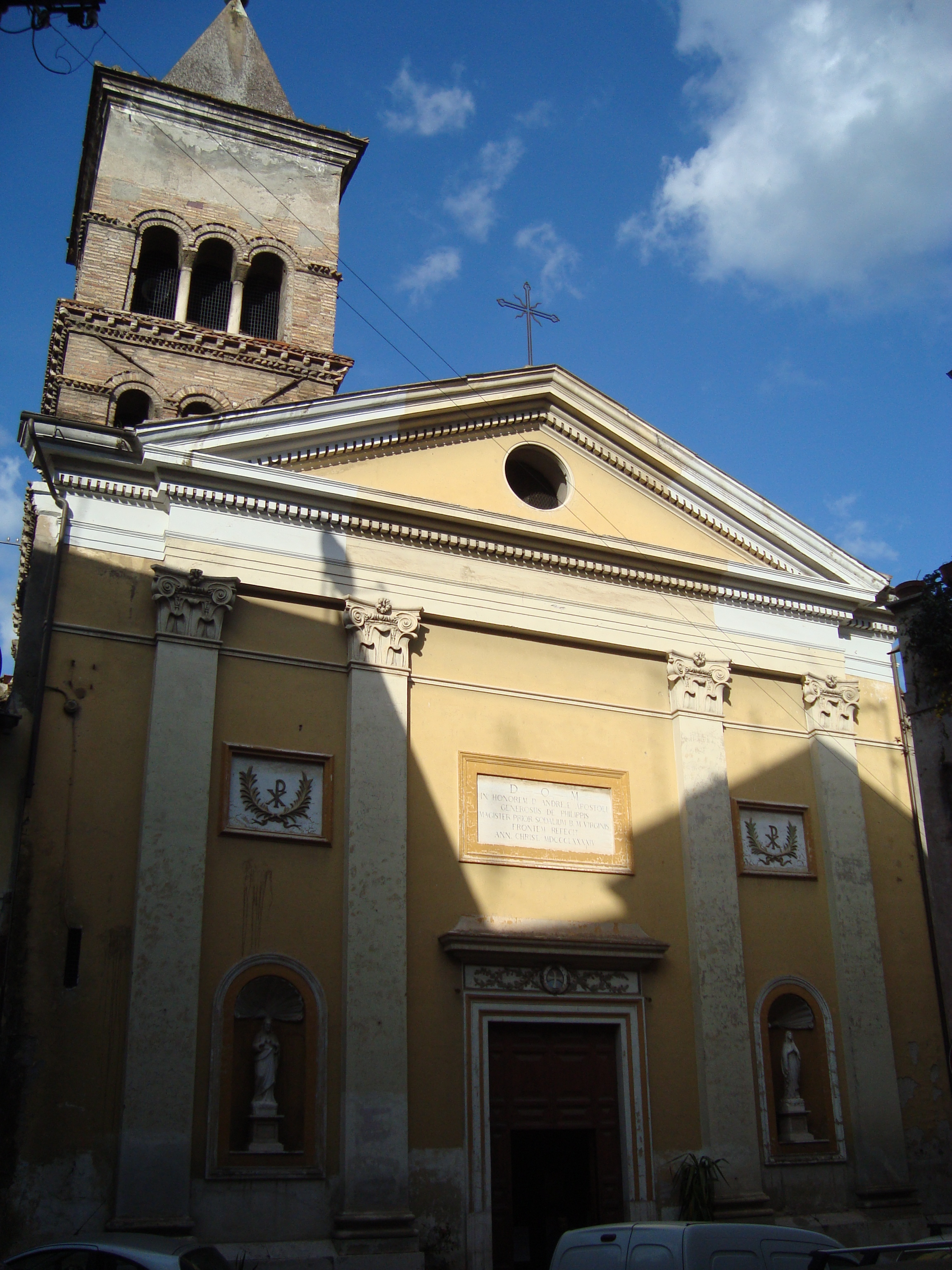 Church Sant'Andrea in Tivoli (facade of 1744)